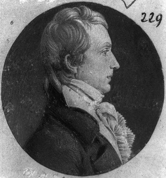 James Breckinridge, head-and-shoulders portrait, right profile.